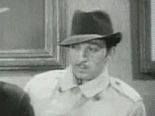 From the public domain short The Stolen Jools